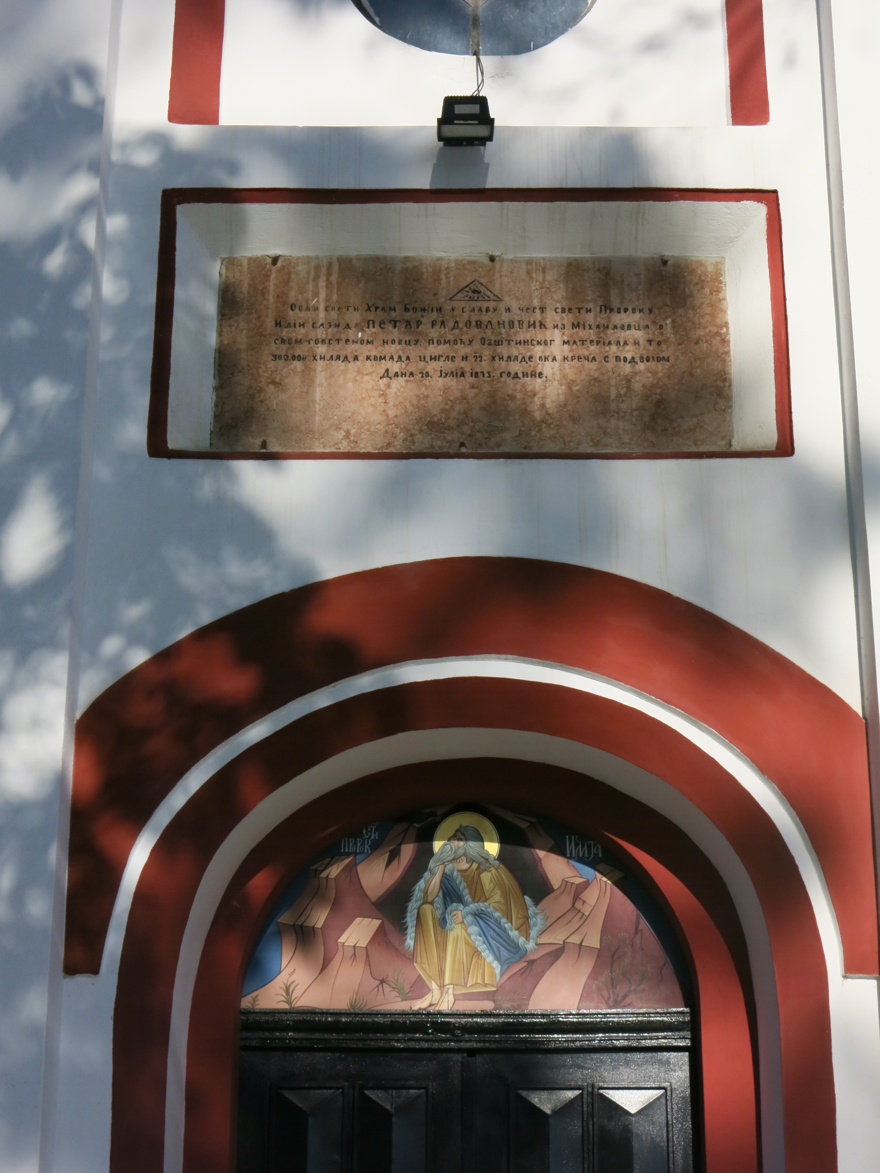 Mihajlovac, Church of Saint Elijah